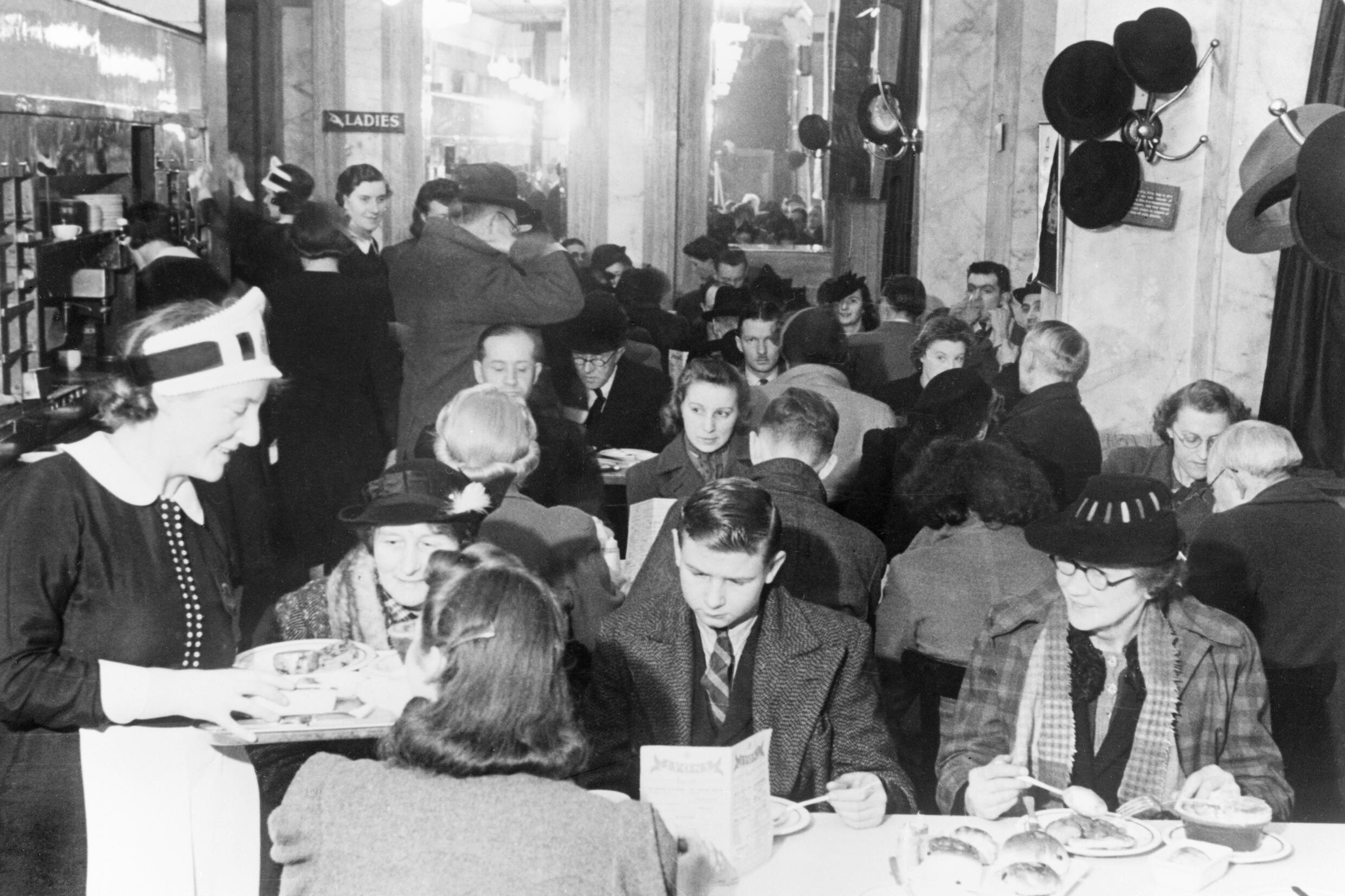 Customers enjoying afternoon tea at Lyon's Corner House on Coventry Street, London, 1942. A waitress brings more cakes to the table as this group of customers enjoy a spot of afternoon tea at Lyon's Corner House on Coventry Street. The cafe is full of people, their hats hung up on hooks on the wall. The bar is just visible on the left of the photograph. A menu and a plate full of buns can be seen on the table in the foreground.